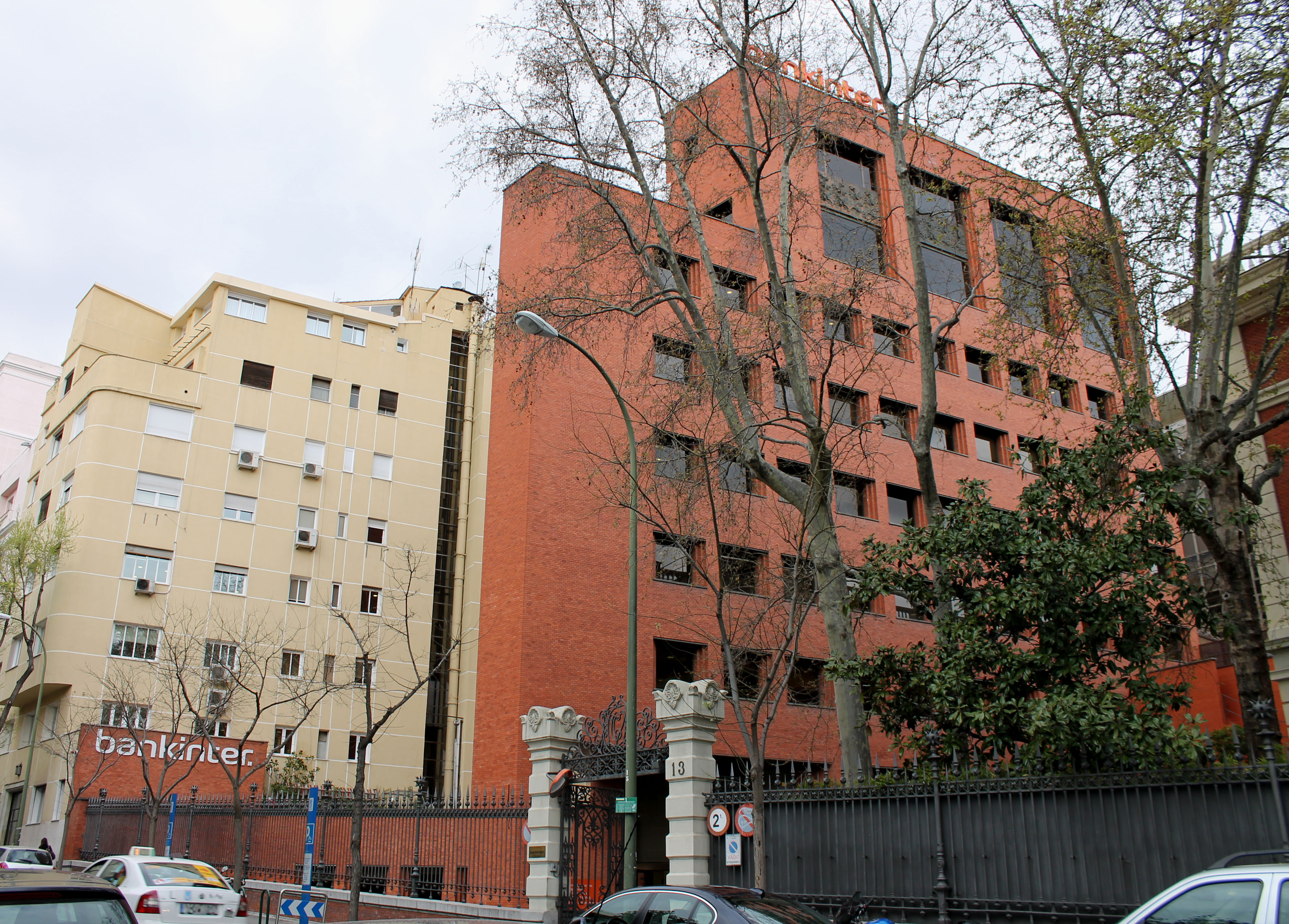 View of Bankinter headquarters at 29 Paseo de la Castellana (avenue) in Madrid (Spain). Building was designed in 1973 by Rafael Moneo and Ramón Bescós Domínguez, and built from 1974 to 1976.